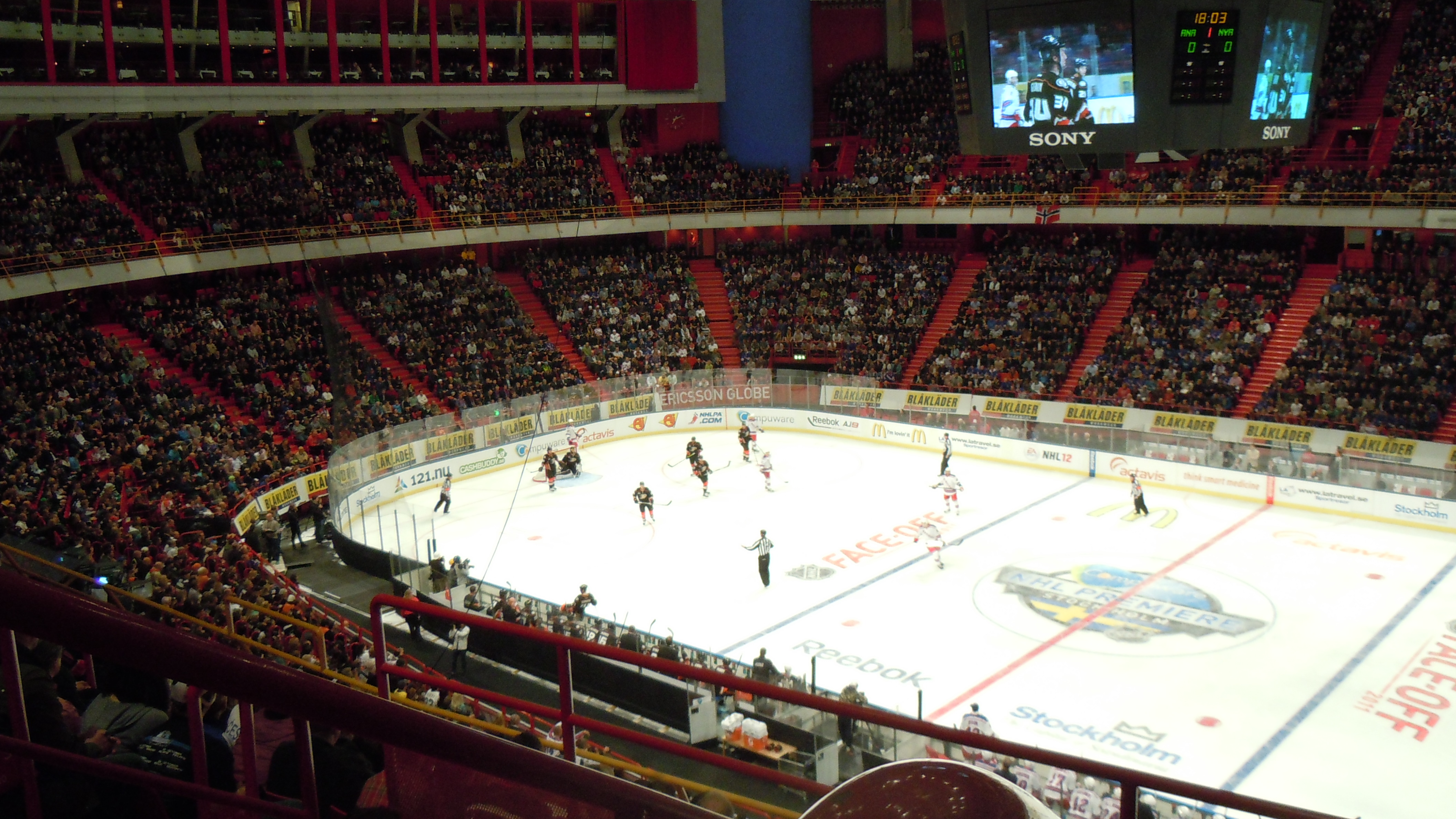 NHL premiere 2011-2012 Anaheim vs NY Rangers in Stockholm